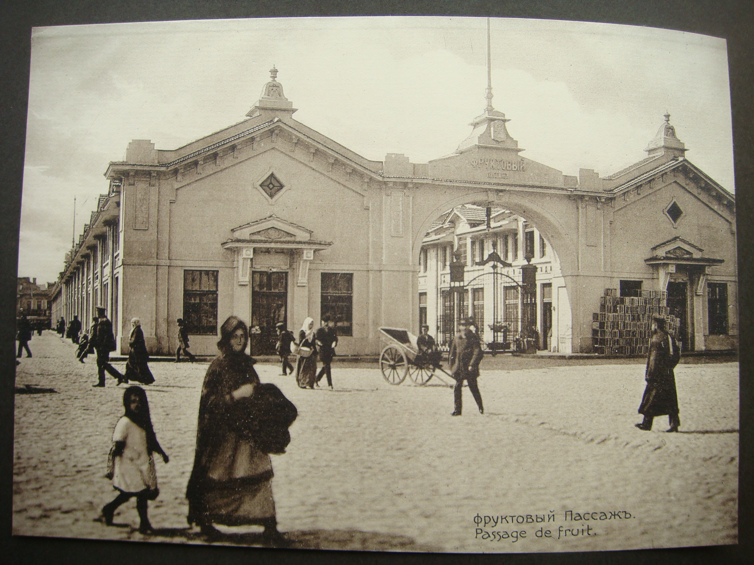 This is photo view of Odessa from Souvenir Photo Album published in Odessa circa early XX century.